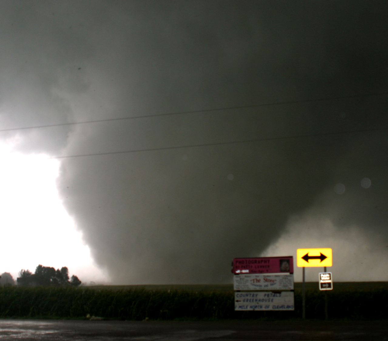 An F3 tornado in Le Sueur County, Minnesota.